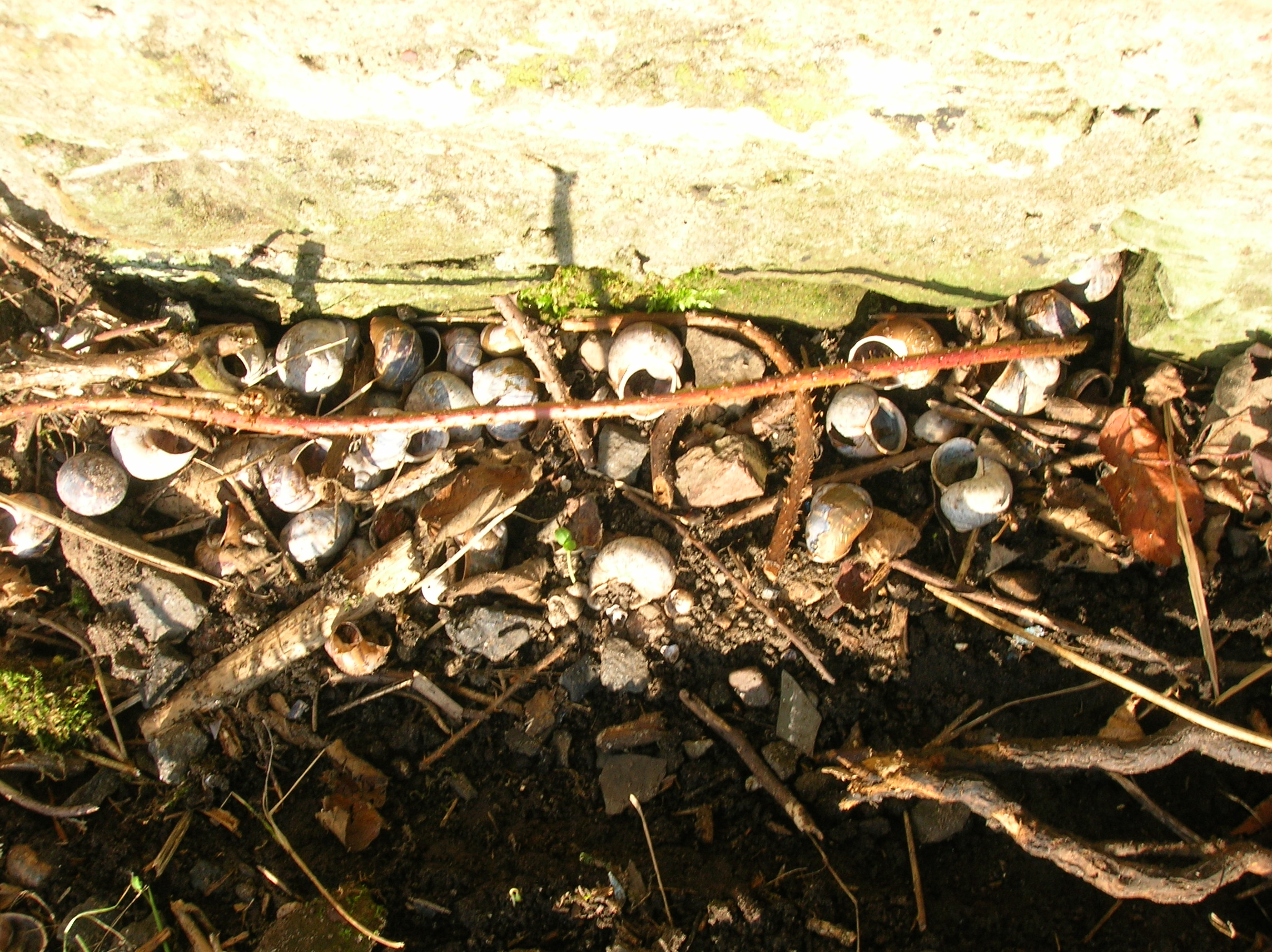 A Helix aspersa shell cemetery, Eglinton doocot, Irvine, Ayrshire, Scotland.